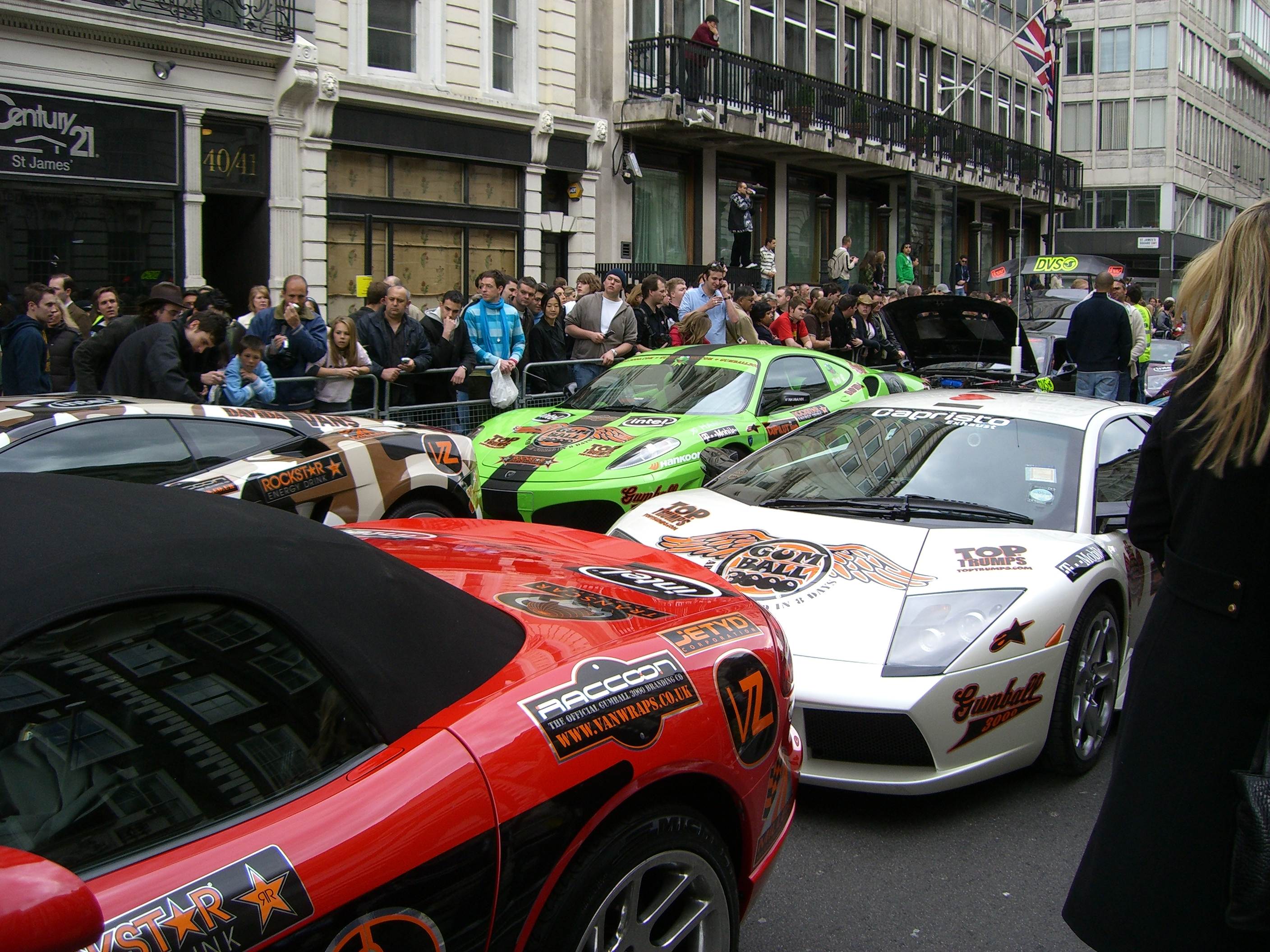 Cars lined up before the start of Gumball 3000 in Pall Mall, London